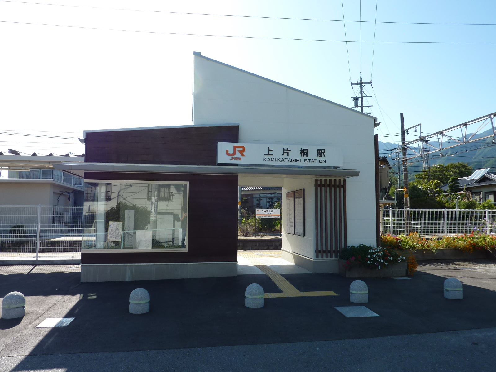 Kami-katagiri Station on JR Iida Line. (3295,Kamikatagiri,Matsukawa-machi,Shimoina-gun,Nagano-ken,JAPAN)